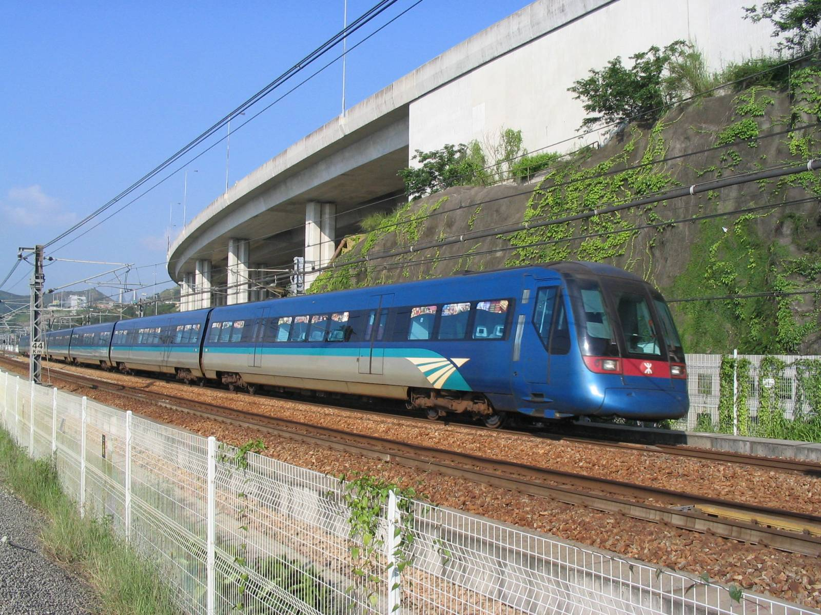 機場快線列車，於欣澳站附近。Airport Express Train, near Sunny Bay Station